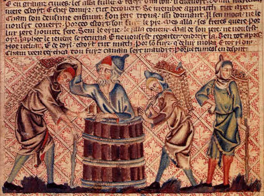 Noah and his sons making wine. Unknown Artist. 1320 AD.